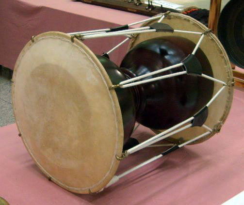 a janggu, the traditional Korean hourglass drum, at an exhibit at Busan Station, Busan, South Korea.